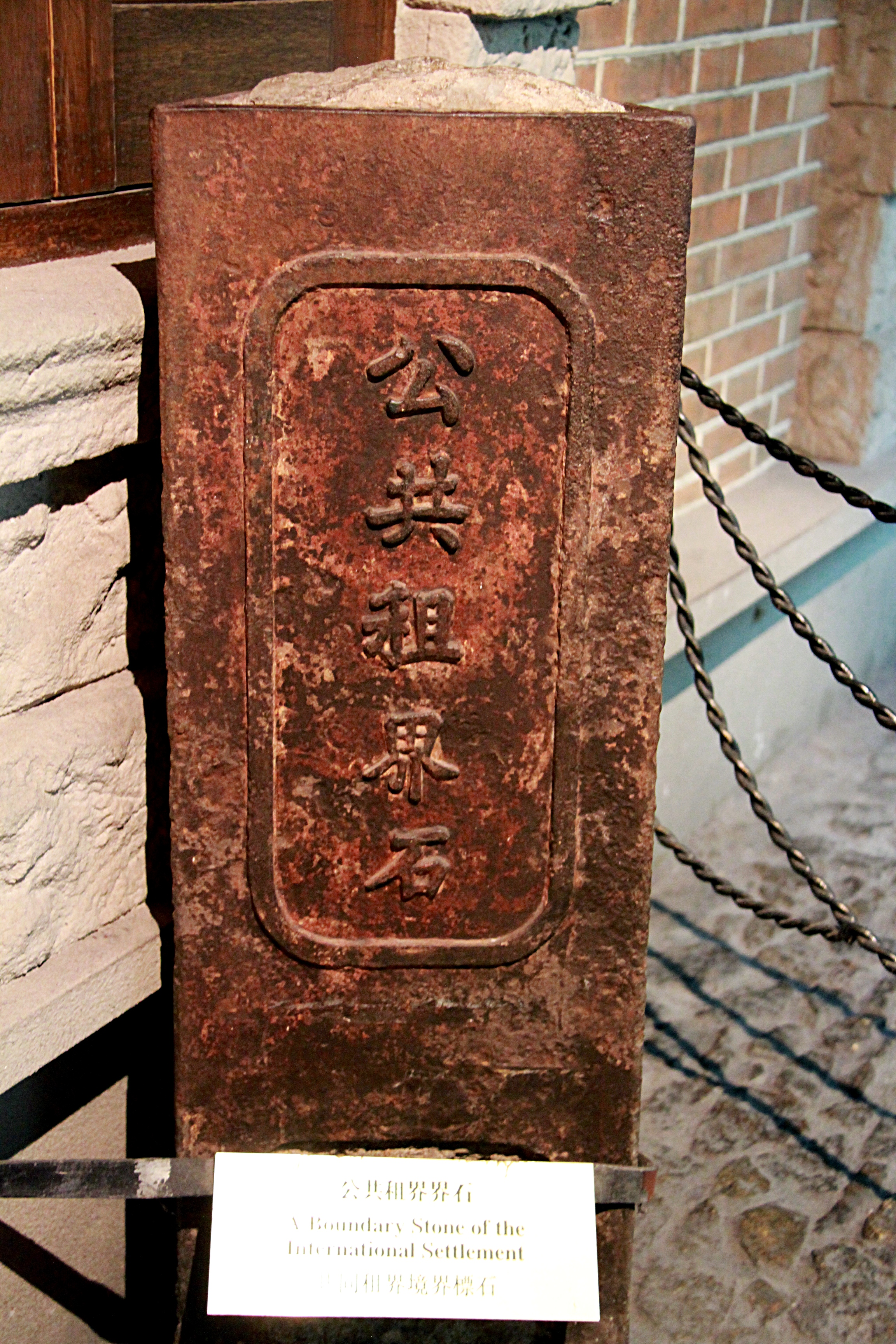 Photograph of a boundary stone from the Shangha International Settlement on display in the Shanghai Municipal History Museum.